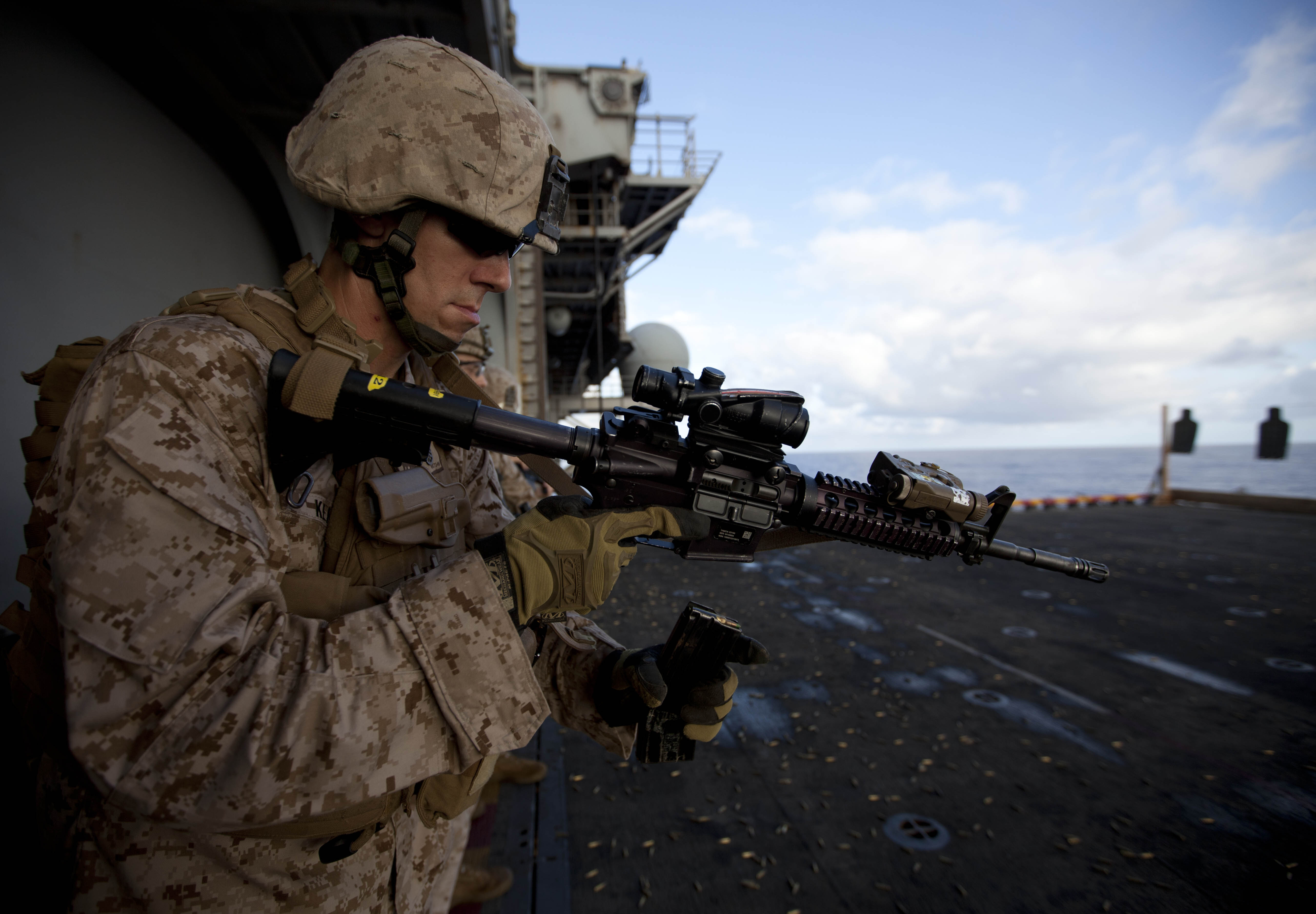 Staff Sgt. Sean Kerby loads an M4 carbine aboard USS Makin Island during live-fire training here June 9. The 36-year-old Pensacola, Fla., native serves as a section leader with Weapons Company, Battalion Landing Team 3/1. The landing team is the ground combat element for the 11th Marine Expeditionary Unit. The unit embarked the ship, as well as USS New Orleans and USS Pearl Harbor in San Diego Nov. 14, beginning a seven-month deployment to the Western Pacific, Horn of Africa and Middle East regions.